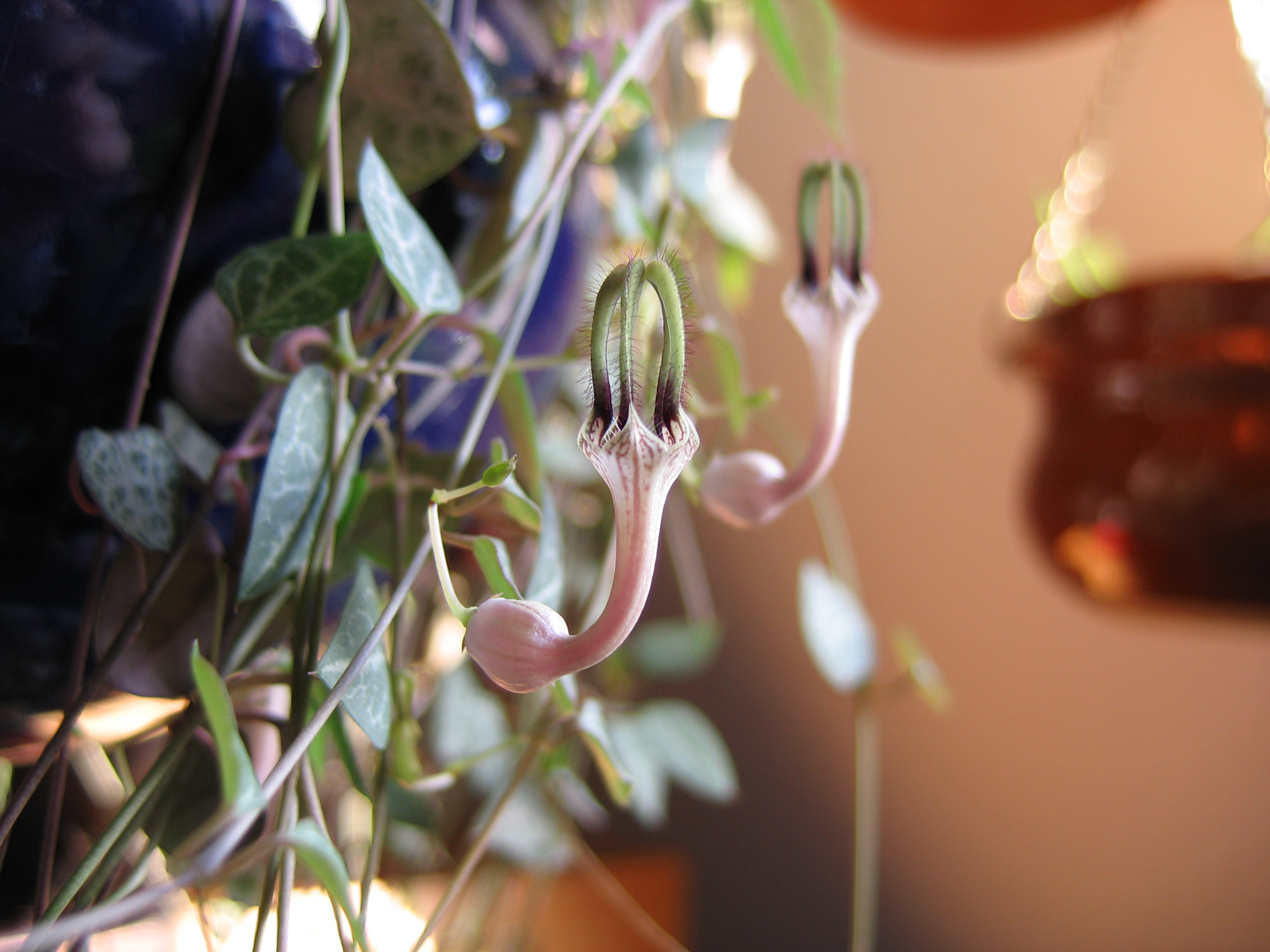 Ceropegia linearis ssp. woodii